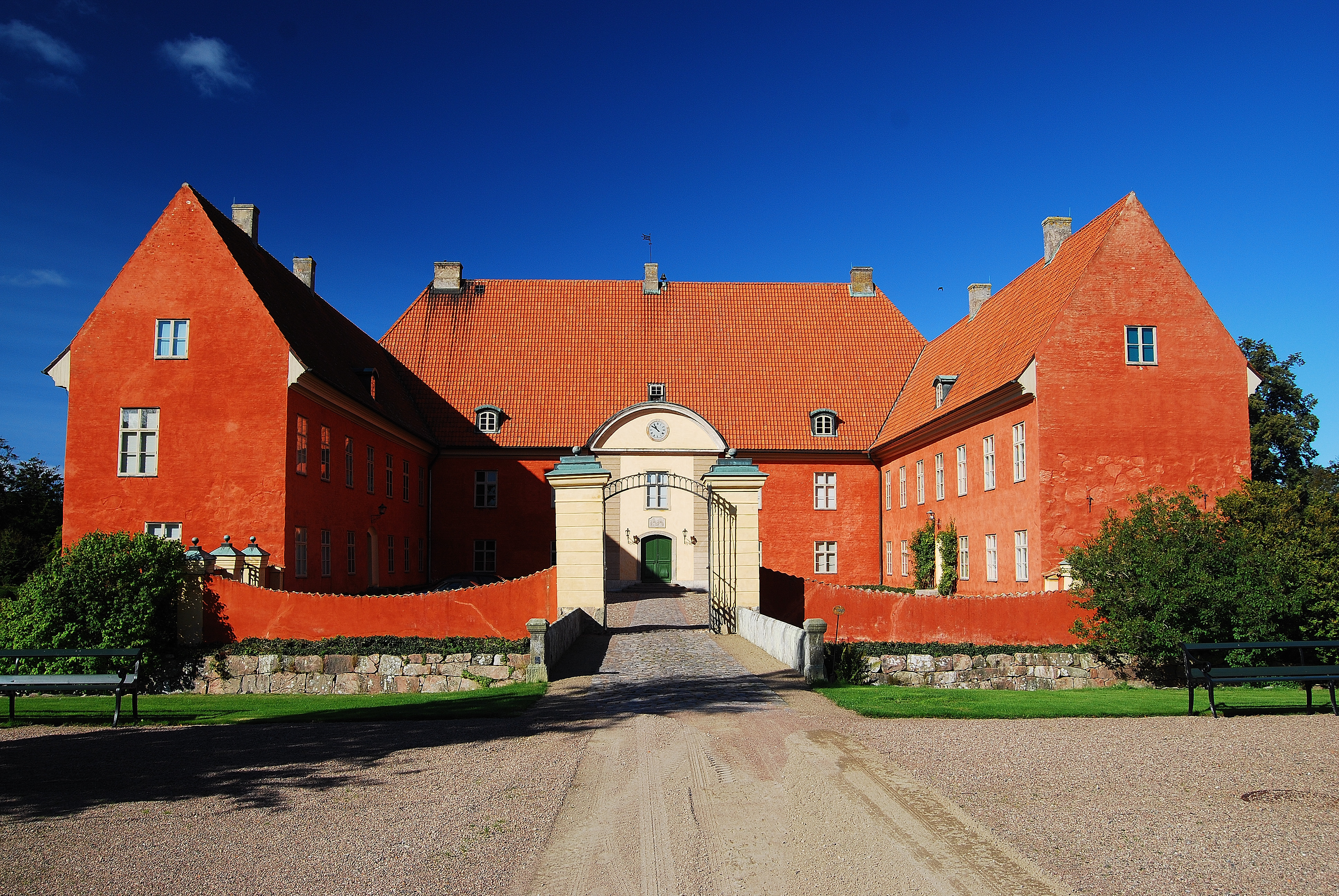 The mansion is one of the oldest and most majestic family mansions in Scania with a history going back to the 14th century